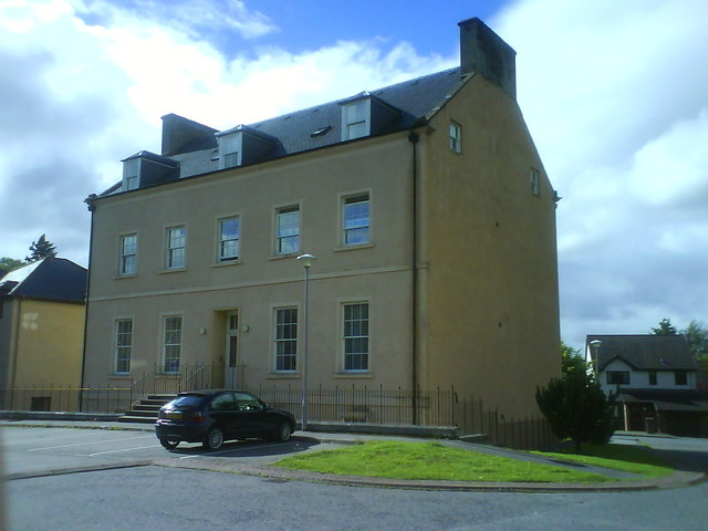 Culduthel House This was once a fine Georgian manor house, set in its own extensive landscaped gardens a good 2 miles into the countryside from central Inverness. Now, it's just another property opportunity having been swallowed up by Inverness' creeping expansion and sub-divided into flats. The landscaped gardens have all been built over, and only sections of the majestic forested areas remain today.